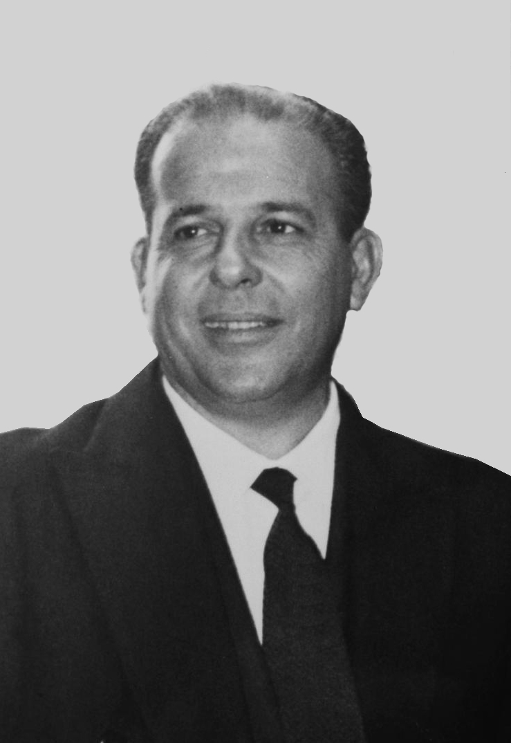 João Goulart, president of Brazil, standing in back of car, during ticker tape parade, New York City.